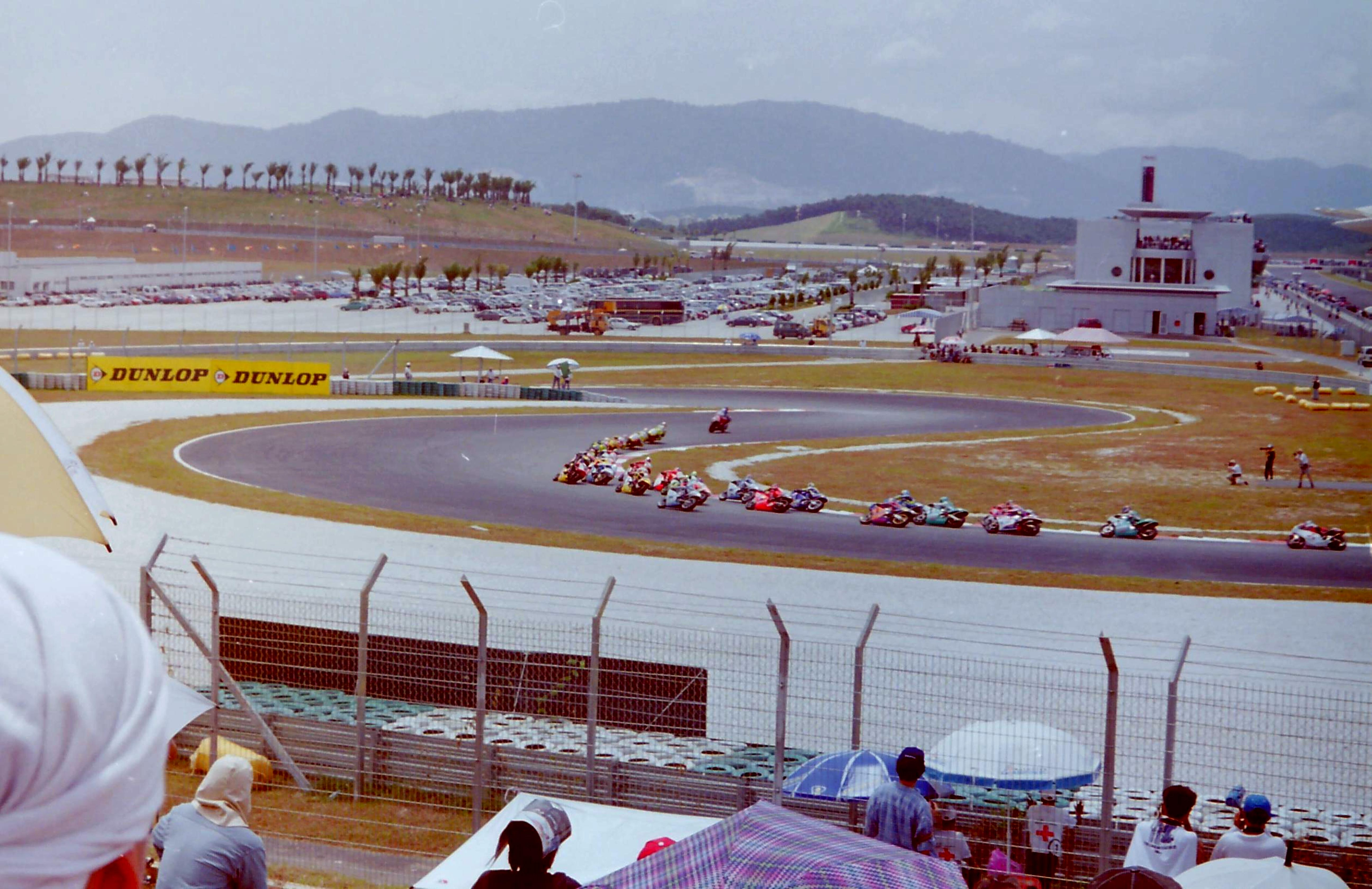 The 1999 Malaysian motorcycle Grand Prix.